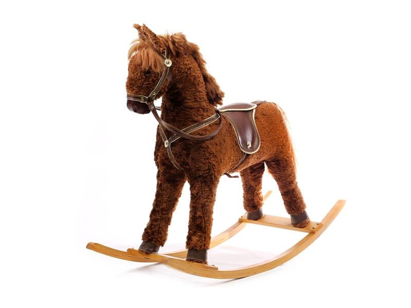 A rocking horse within the permanent collection of The Children's Museum of Indianapolis.